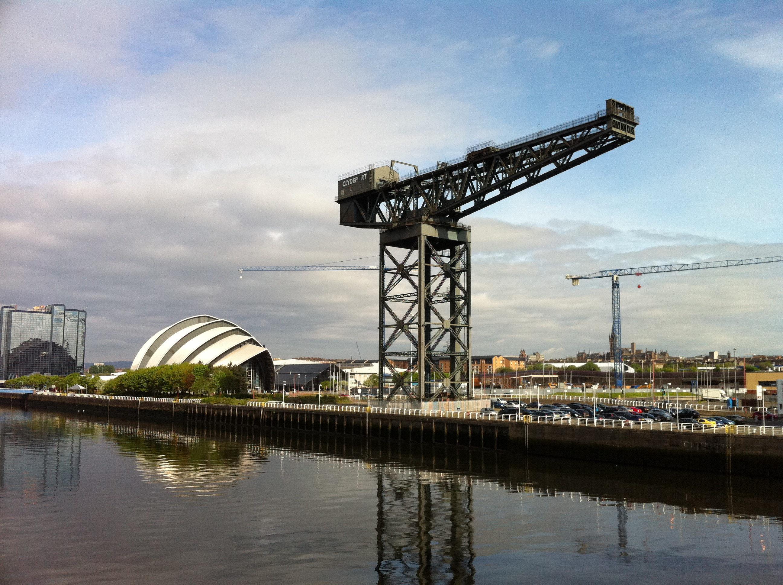 The Finnieston Crane taken from the Squinty Bridge with the Clyde Auditorium to the left.